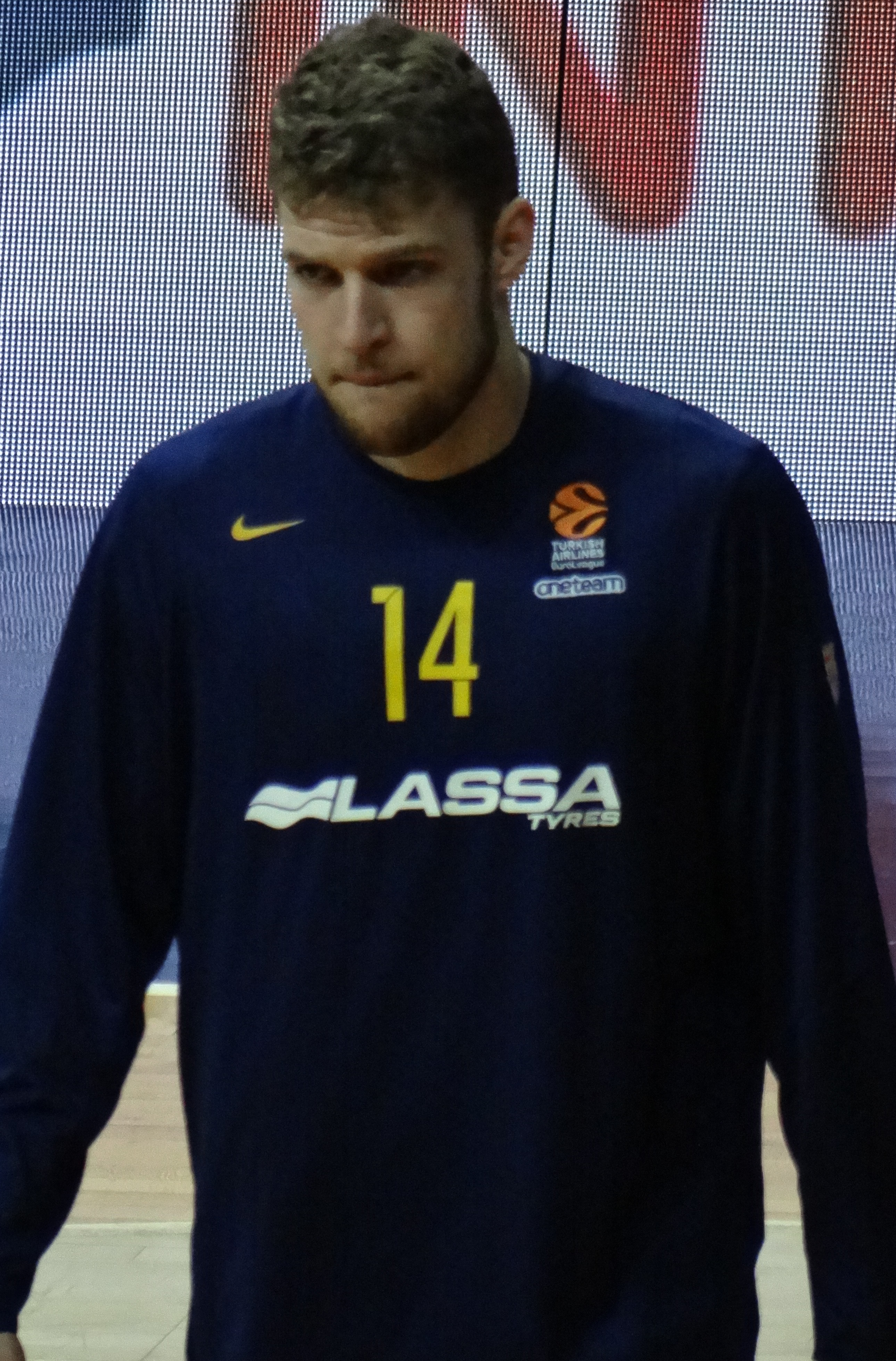 Sasha Vezenkov 14 FC Barcelona Bàsquet 20180126